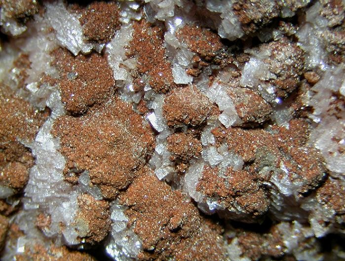 Caryopilite, Rhodochrosite Locality: N'Chwaning II Mine, N'Chwaning Mines, Kuruman, Kalahari manganese fields, Northern Cape Province, South Africa (Locality at ) Brown crust of Caryopilite on Rhodochrosite. Field of view 15 mm. Specimen and photo Leon Hupperichs.